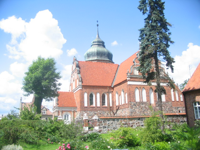 Saints Simon and Jude church in Stary Targ, Poland